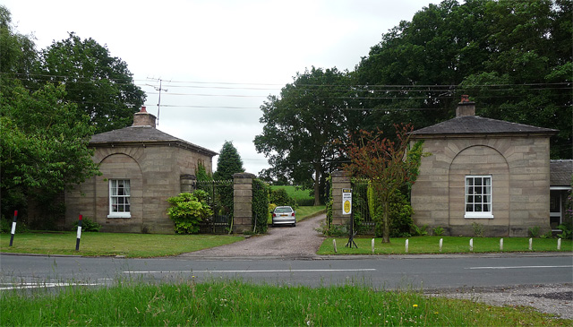 Photograph of the former North Lodges to Doddington Hall, Cheshire